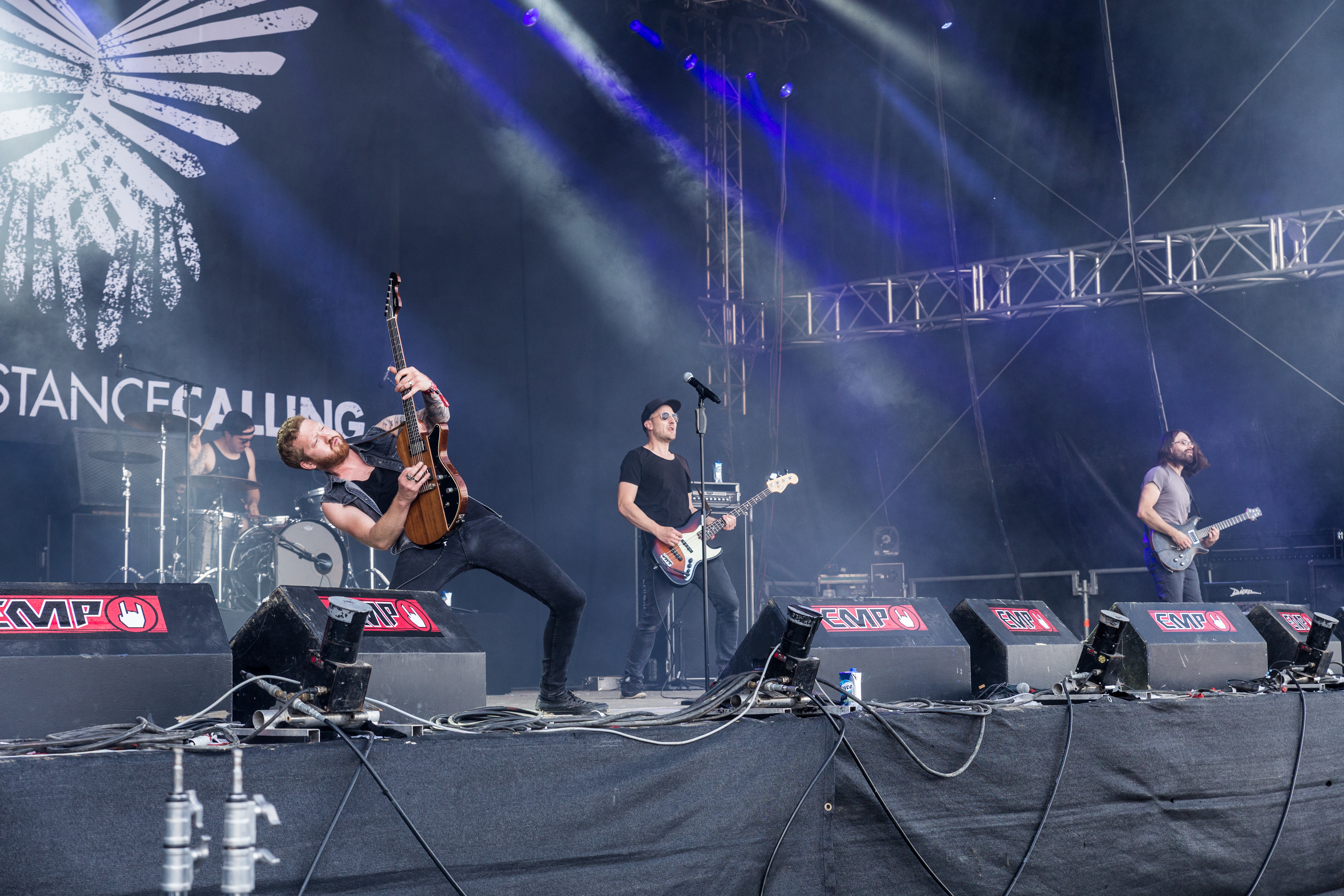 The German post-rock band Long Distance Calling at the Summer Breeze Open Air 2017 in Dinkelsbühl/Germany.